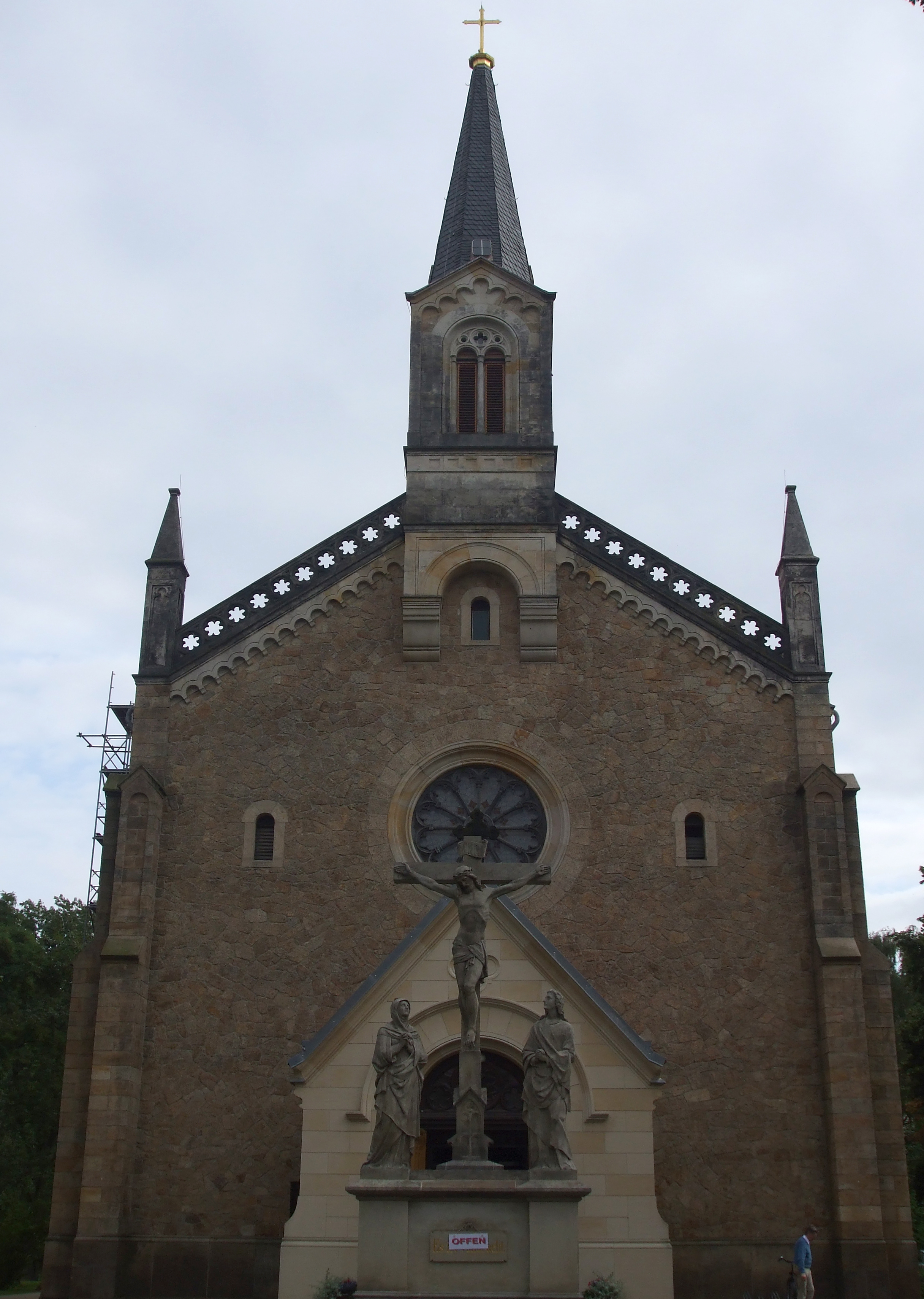 Holy Cross church in Görlitz